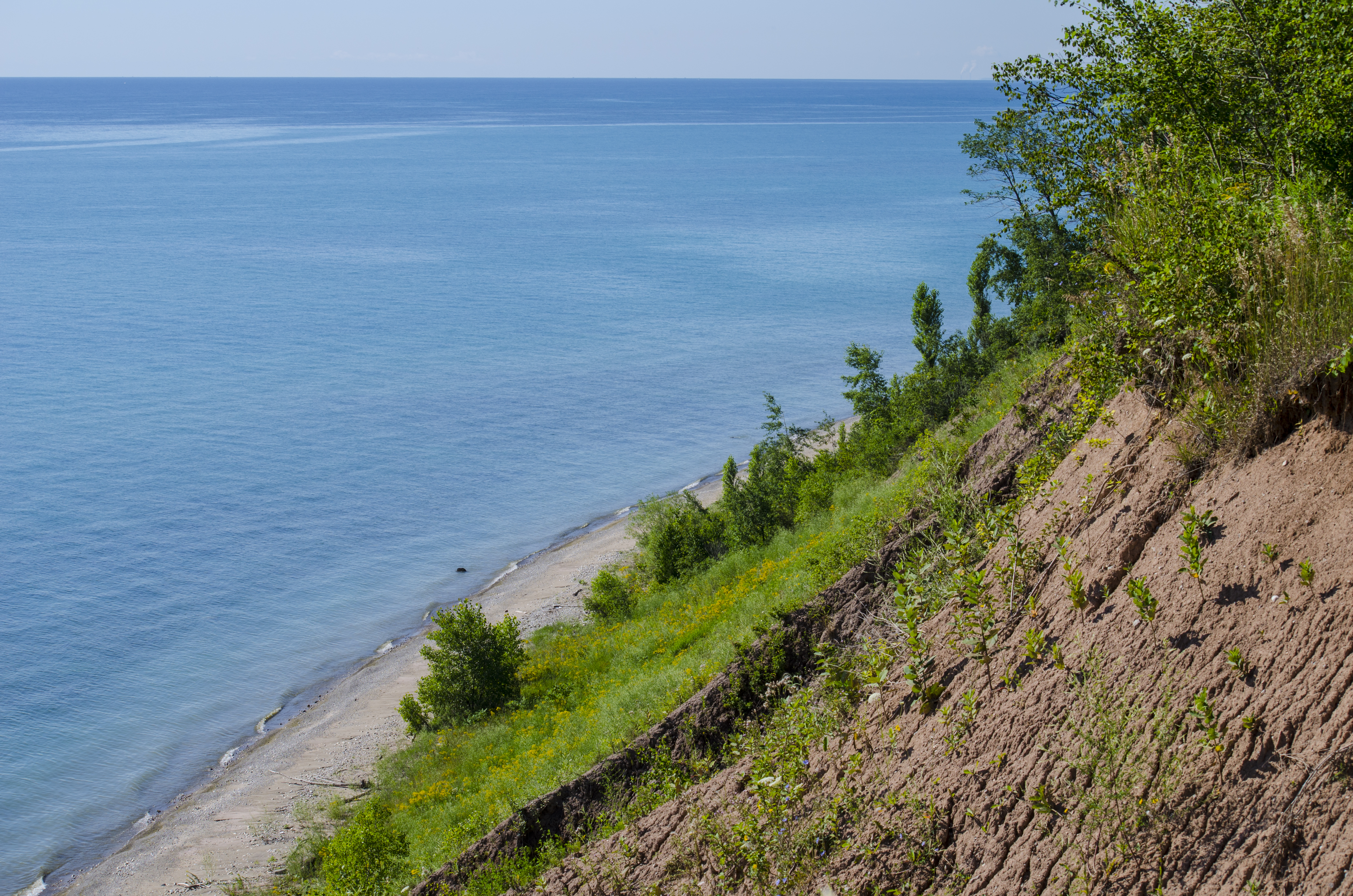 This picture was taken from the hiking trail in Lion's Den Gorge Nature Preserve.